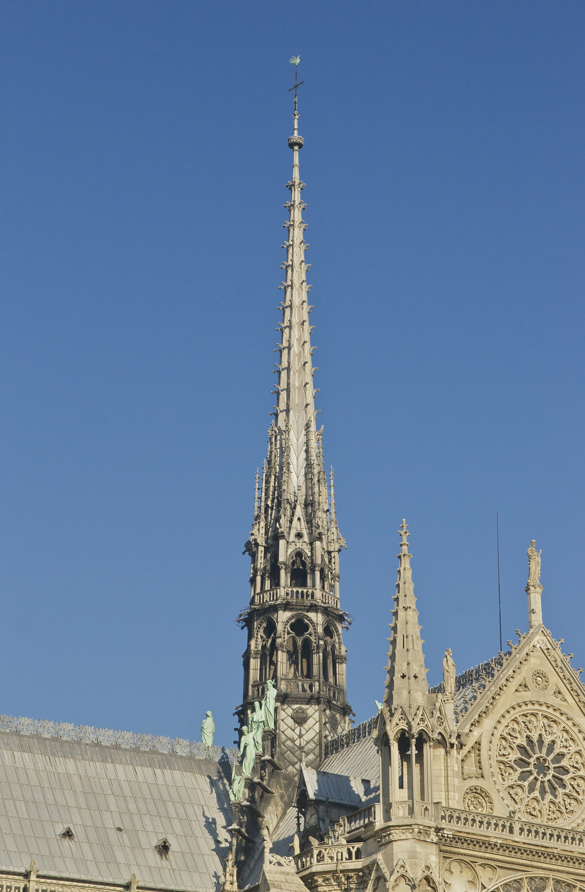 The spire of the Cathedral Notre-Dame de Paris. Not medieval, but gothic revival opus of Viollet-le-Duc, made by Ateliers Monduit during the 19th century, in oak covered with lead, weight: 750 tons. Since 1935, the cock at the top contains a relic of the Holy-Cross, a relic of Saint Denis, and one of Saint Genevieve (patrons of the city of Paris).